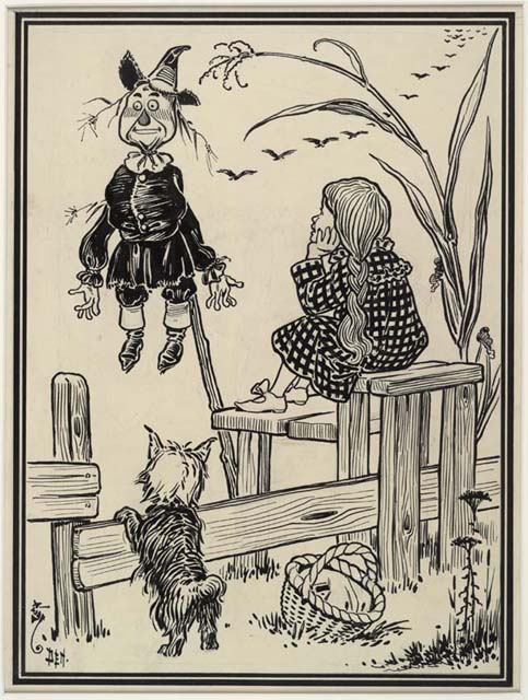 scanned from 1900 Wizard of Oz book